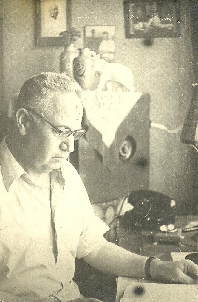 Профессор Г.К.Алиев за рабочим столом.